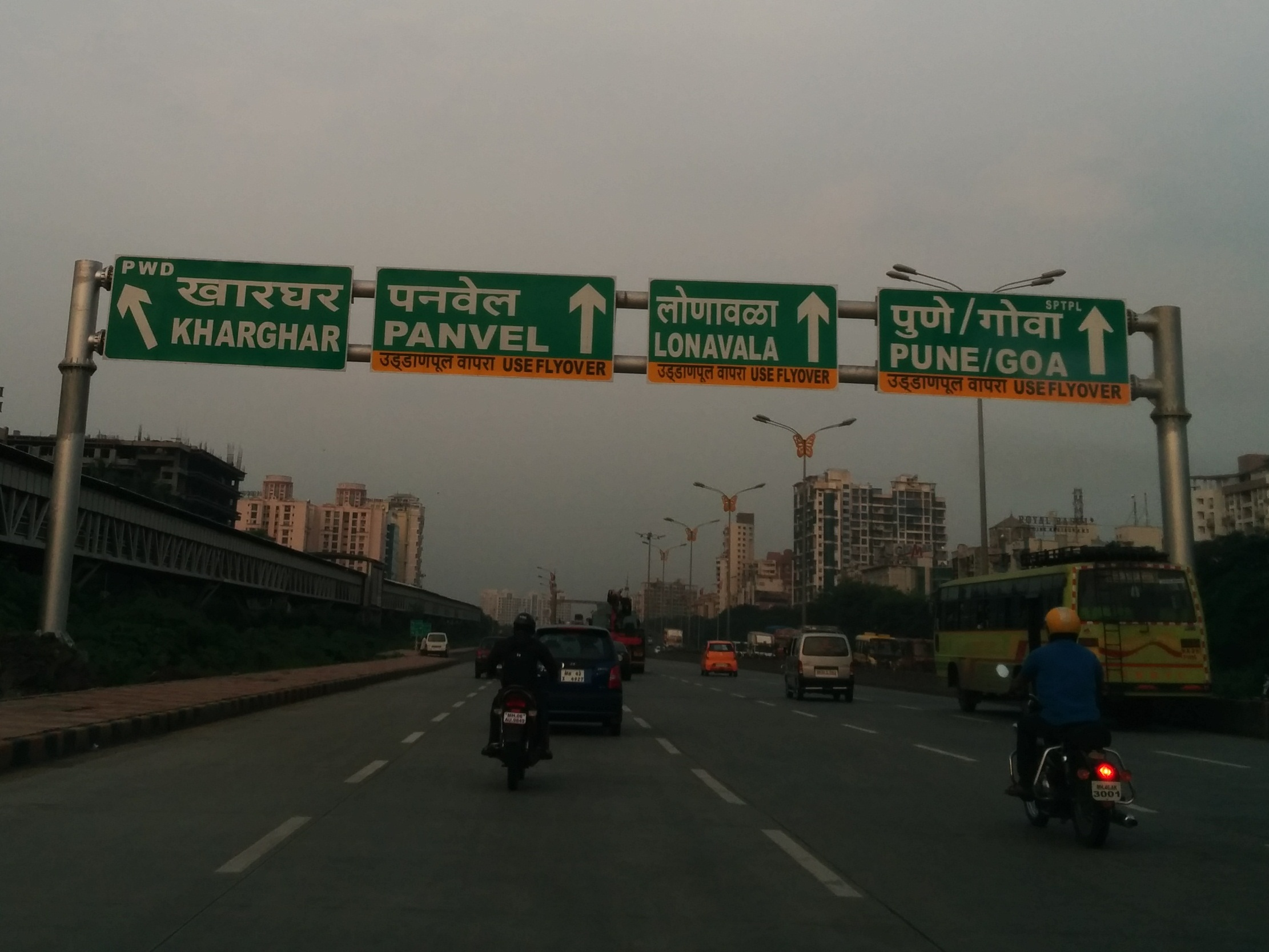 Exit sign on Sion Panvel Highway for Kharghar node of Navi Mumbai